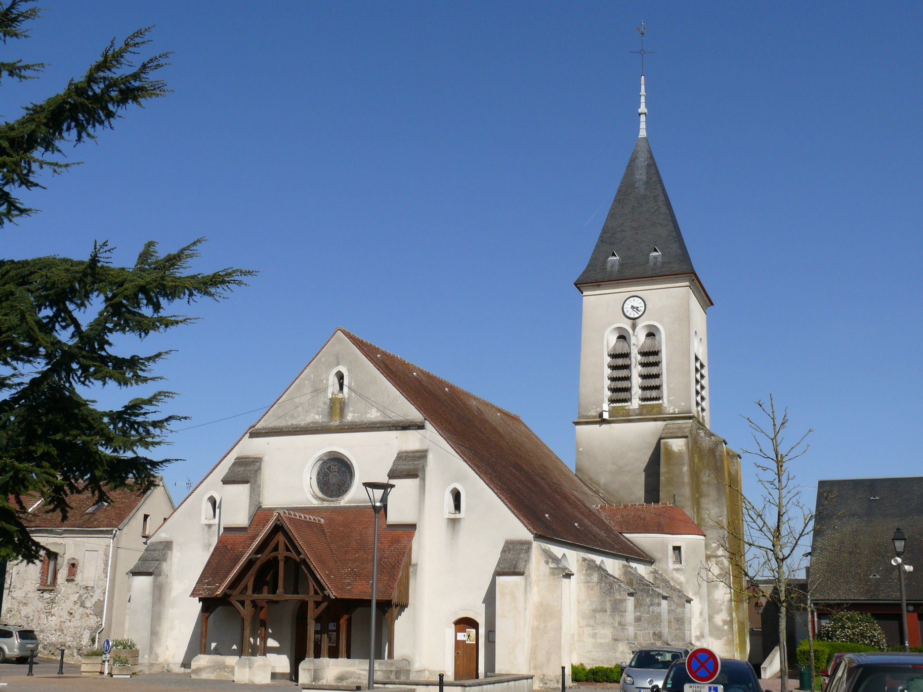 Saint-Sulpice's church of Saint-Soupplets (Seine-et-Marne, Île-de-France, France).